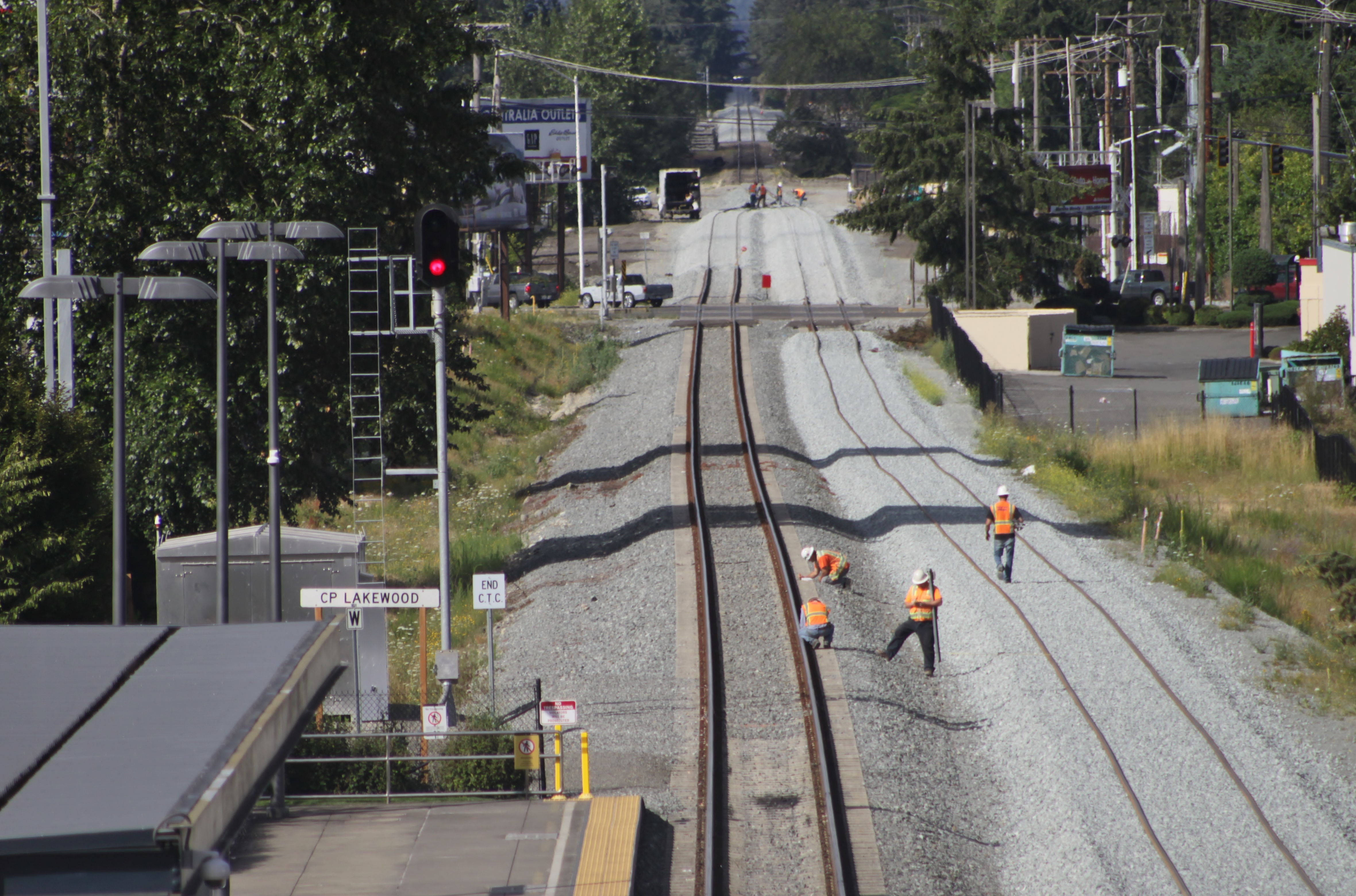 Workers on a section of the under construction Point Defiance Bypass in Lakewood, Washington, seen from Lakewood station.